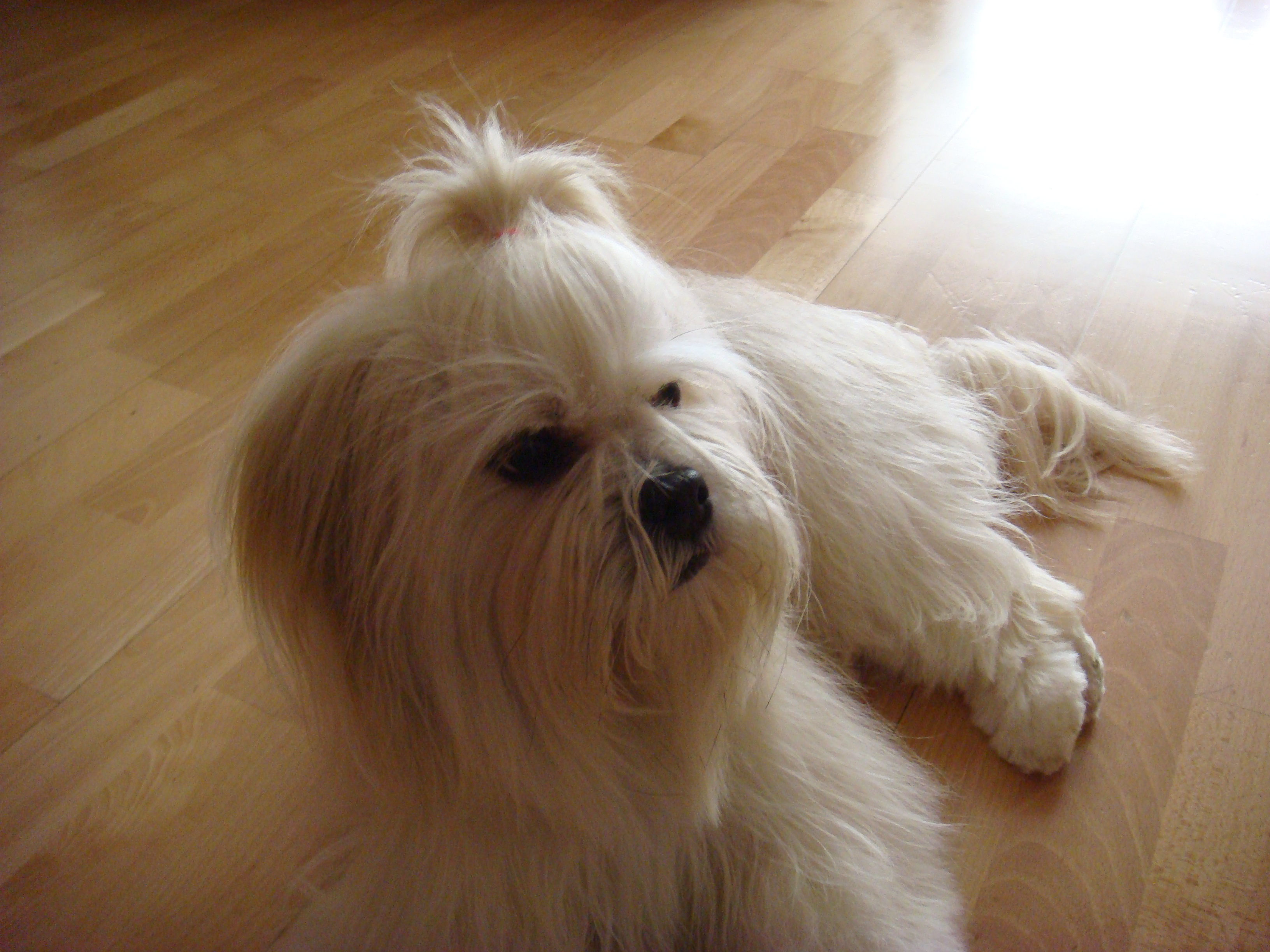 A dog, Lhasa Apso, with white hair it is 2 years old named Yuna Un perro lhasa apso, con el pelo blanco tiene dos años se llama Yuna